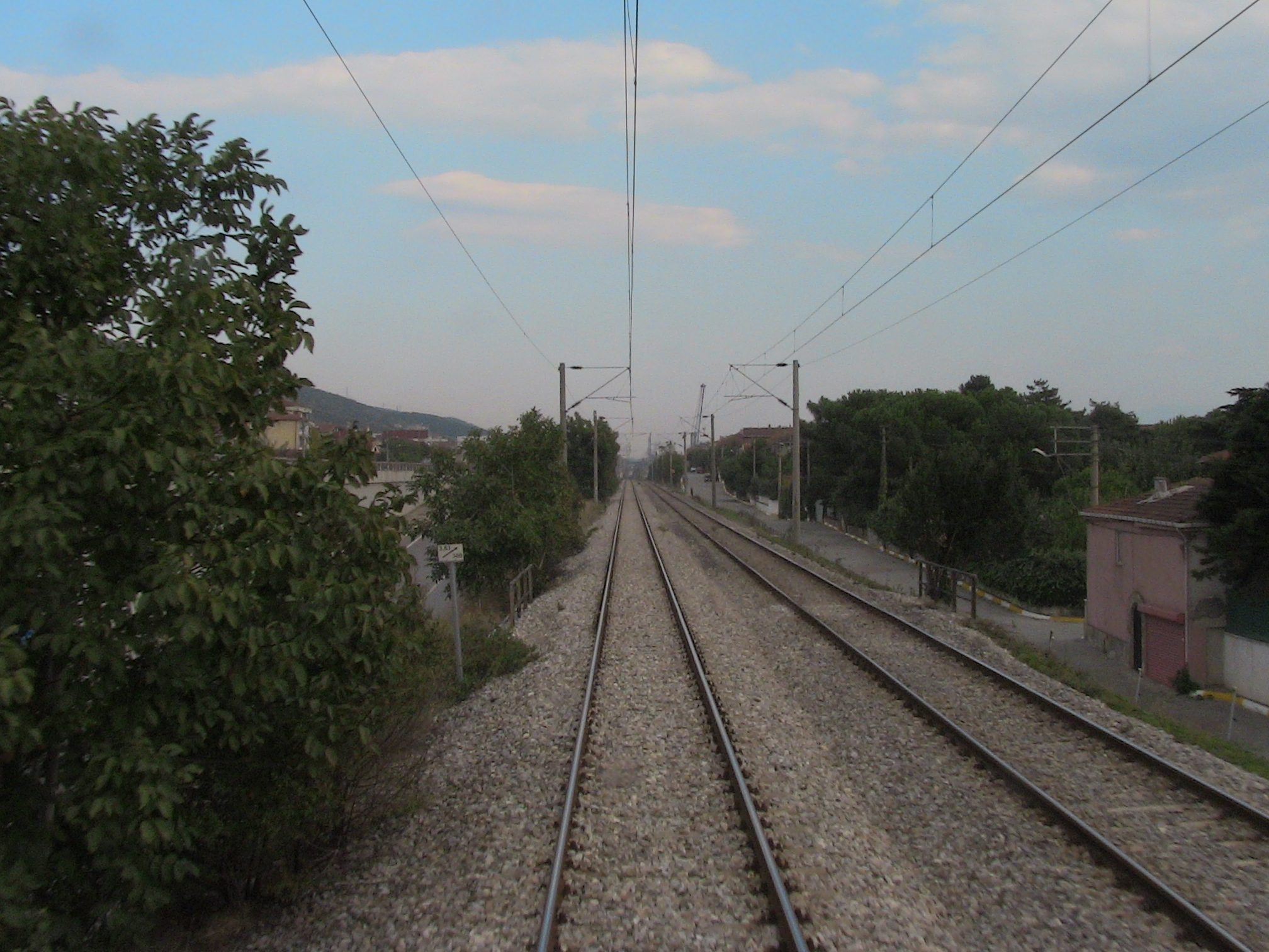 The Istanbul-Ankara main line near Korfez.